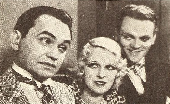 Edward Robinson, Noel Francis and James Cagney in Smart Money.